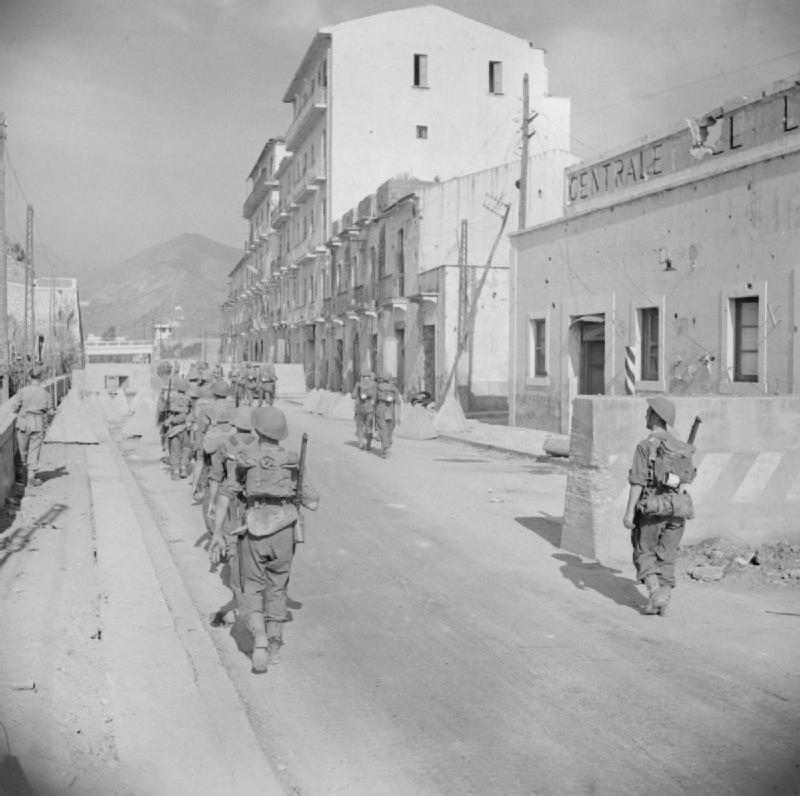 The British Army in Italy 1943 Infantry march through Salerno, 10 September 1943.